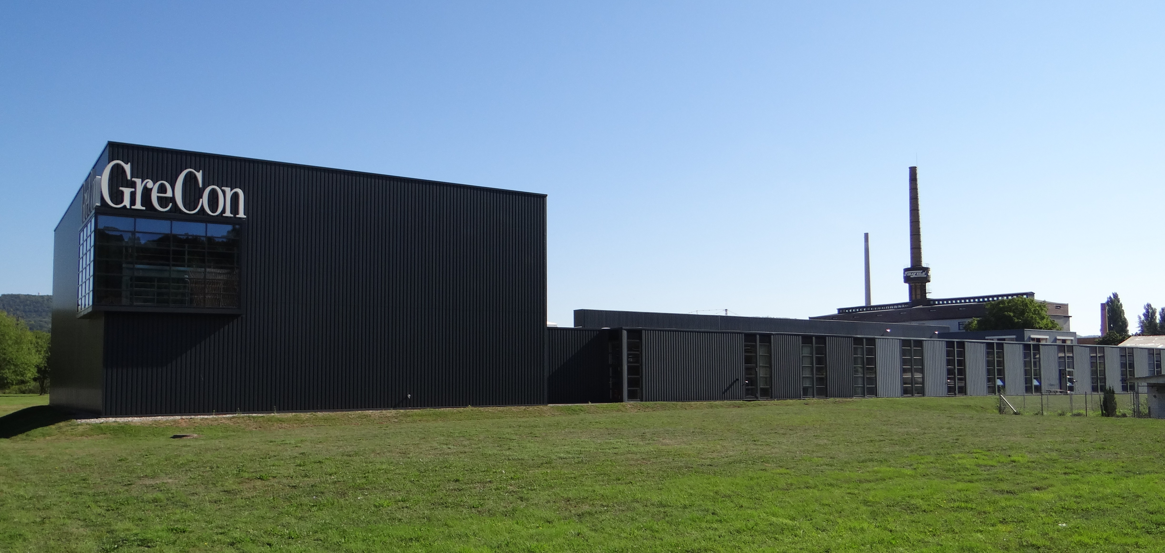 Factory building of GreCon in Alfeld, Germany.